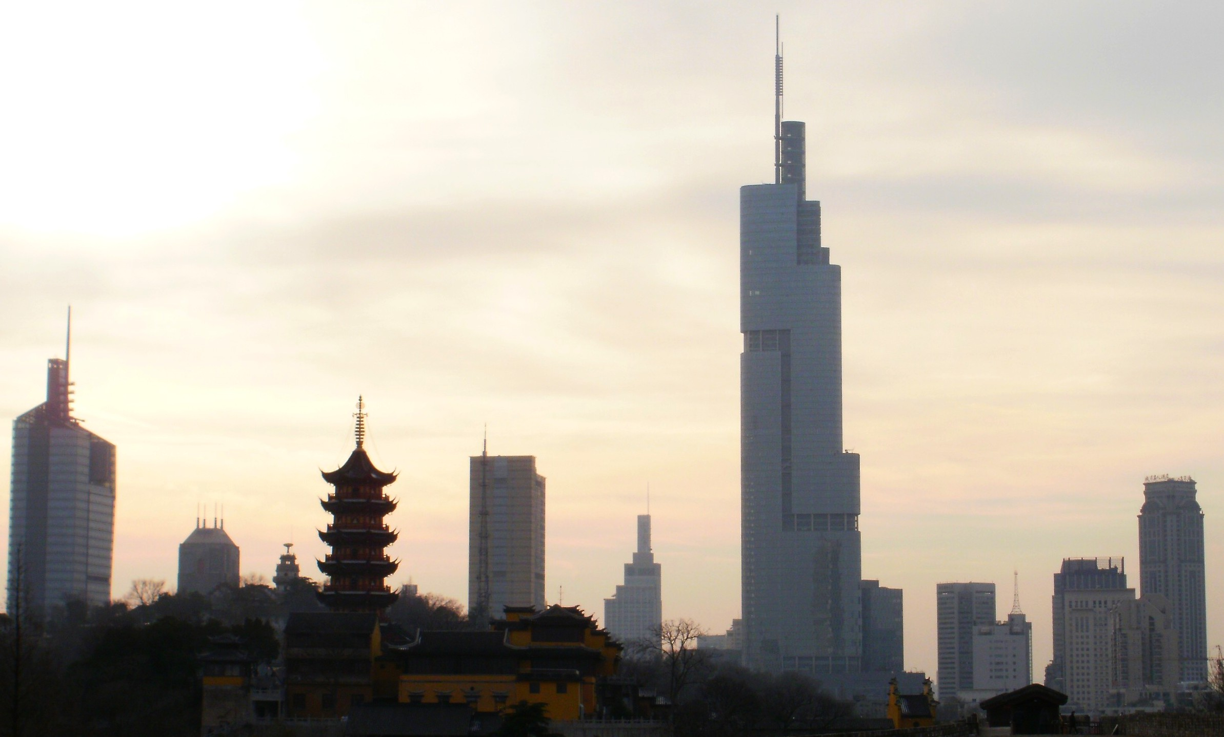 Skyline of Nanjing with Jiming Temple and Zifeng Tower, seen from the Northeastern section of the Nanjing city wall